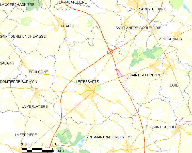 Map of French municipality Les Essarts